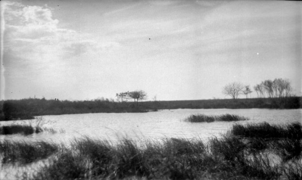 A body of water with plants and trees growing in and near it.